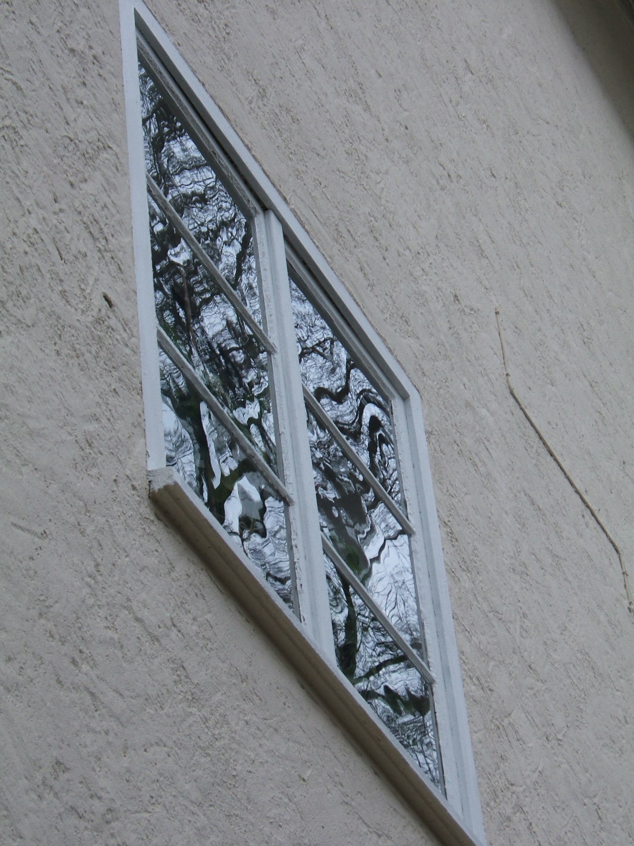 Old window made from soda-lime flat glass. Interesting are the distorted reflections of a tree that give an indication that the flat glass was possibly not made by the float glass process.